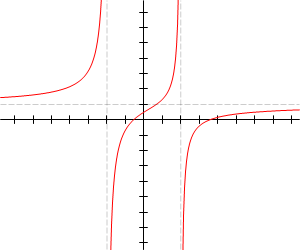 Rational function